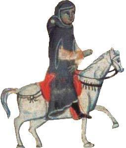 Guilhem Ademar from BnF MS 12473 folio 88r.